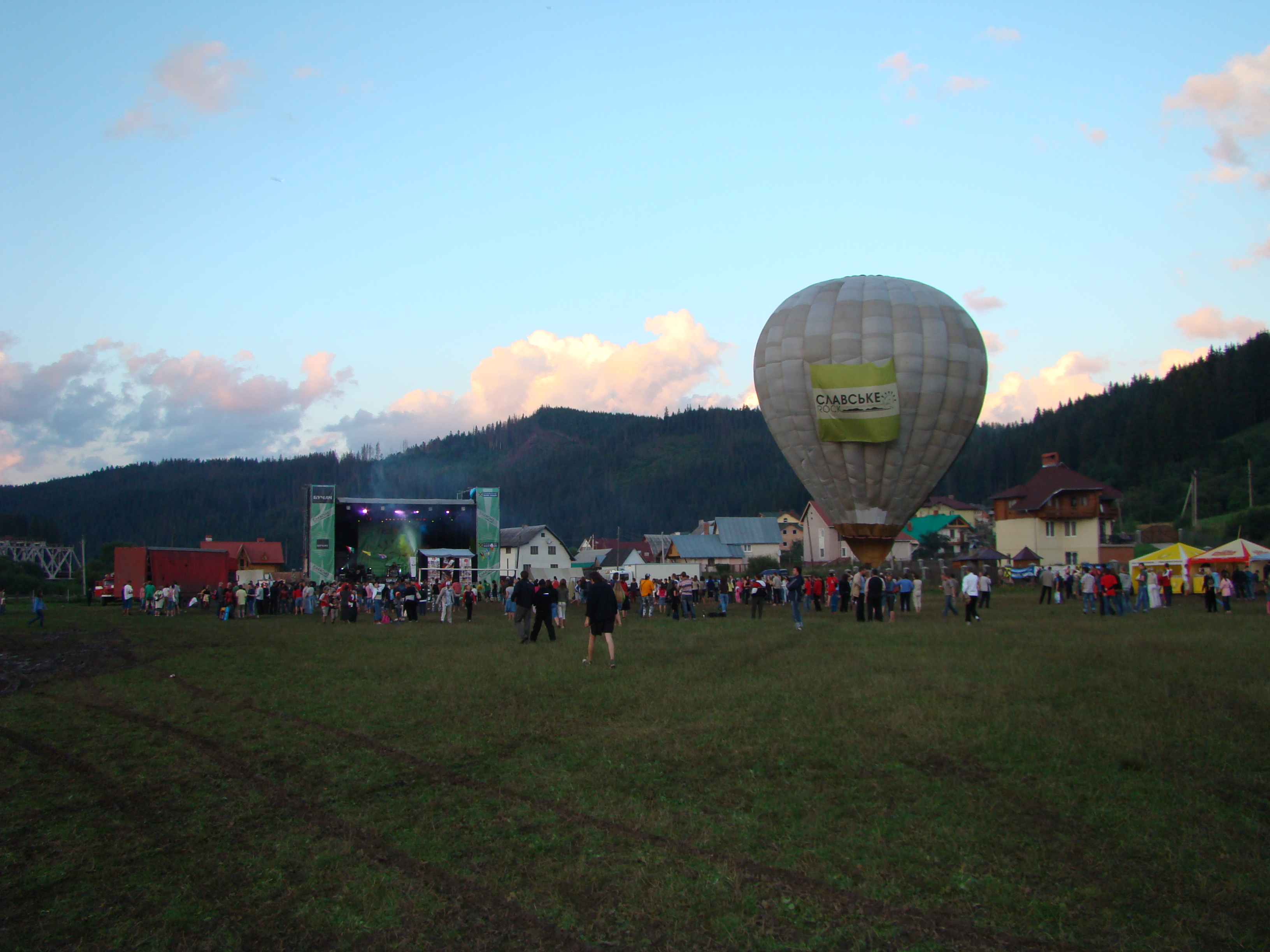 Slavśke Rock Festival 2008. The field with the grand stage.